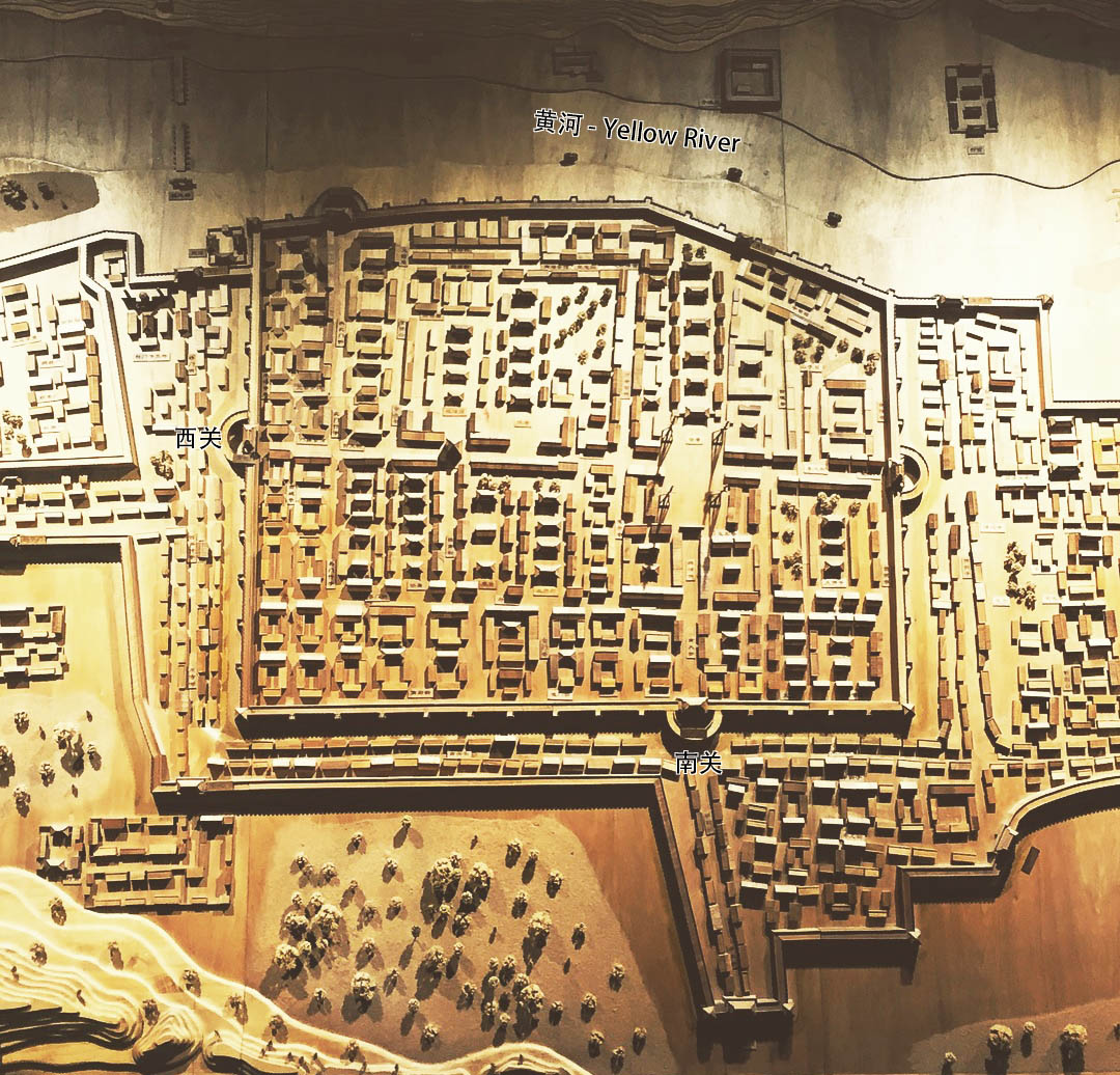 Model showing how ancient Lanzhou would have looked